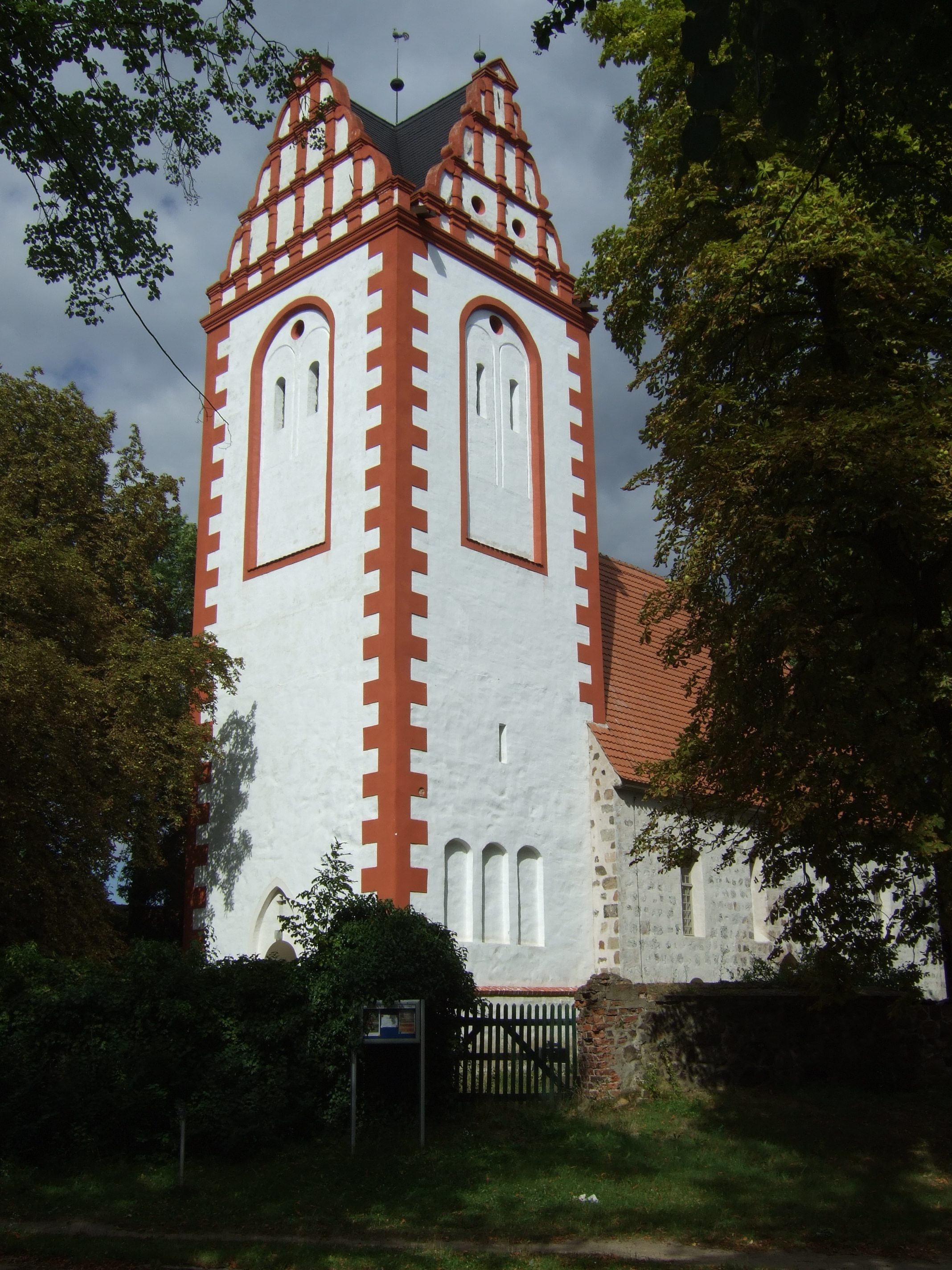 Church in Kliestow, borrough of Frankfurt (Oder), Germany.